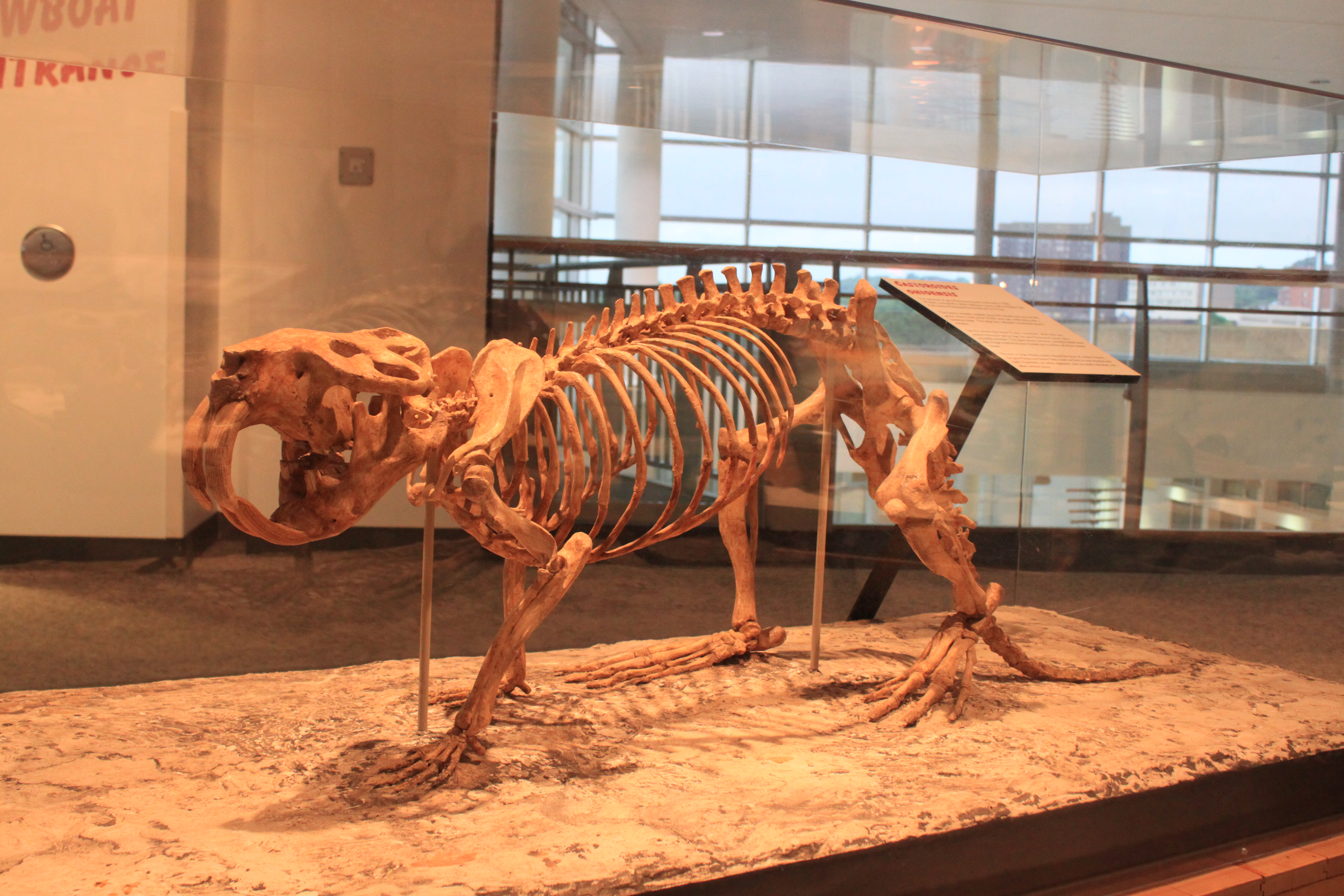 Taken at the Minnesota Science Museum: Mississippi River Gallery. Creative Commons Licensed photo by . Please feel free to take and reuse for any purpose!